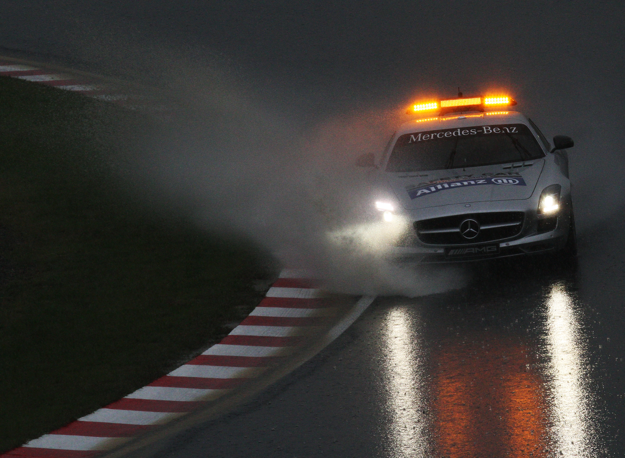 Formula One 2010 Rd.16 Japanese GP: FIA's track inspection for the Saturday qualify session. The safety car at the 'S' of the circuit.